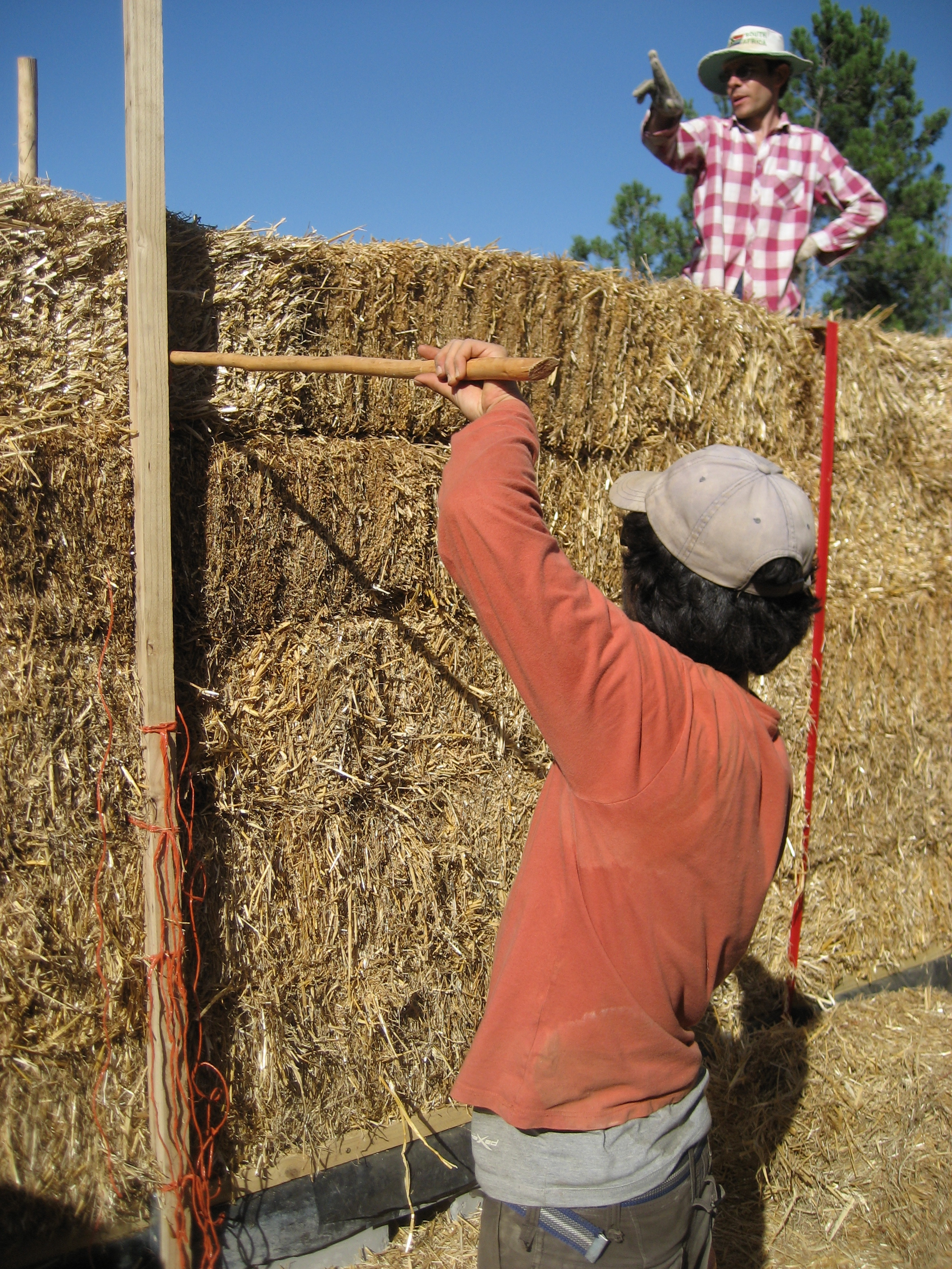 Building a straw-bale house